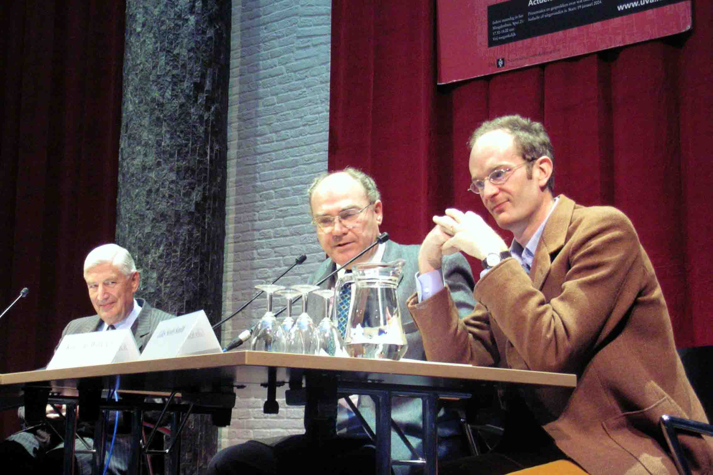 Photograph made and uploaded by Dirk van der Made (DirkvdM) Presentation of the book A turning point in natural history (Een keerpunt in de vaderlandse geschiedenis) at the Maagdenhuis (University of Amsterdam).